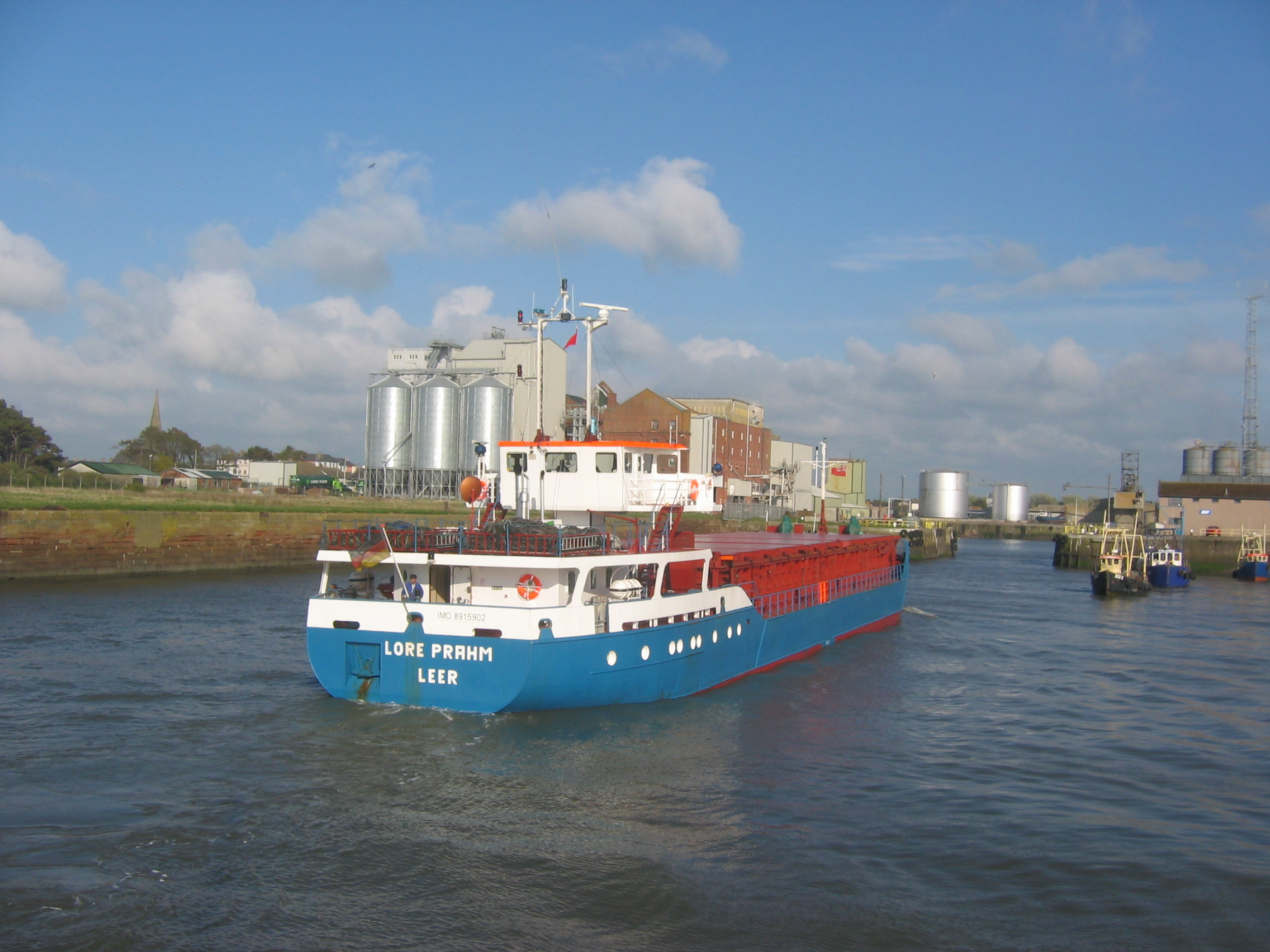 "Lore Prahm" entering the outer harbour at Silloth Port, Solway Firth, England